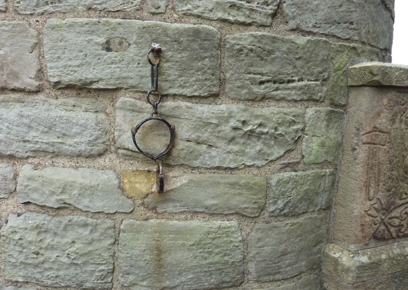 Abernethy Round Tower, Abernethy, Perth and Kinross, Scotland - pillory